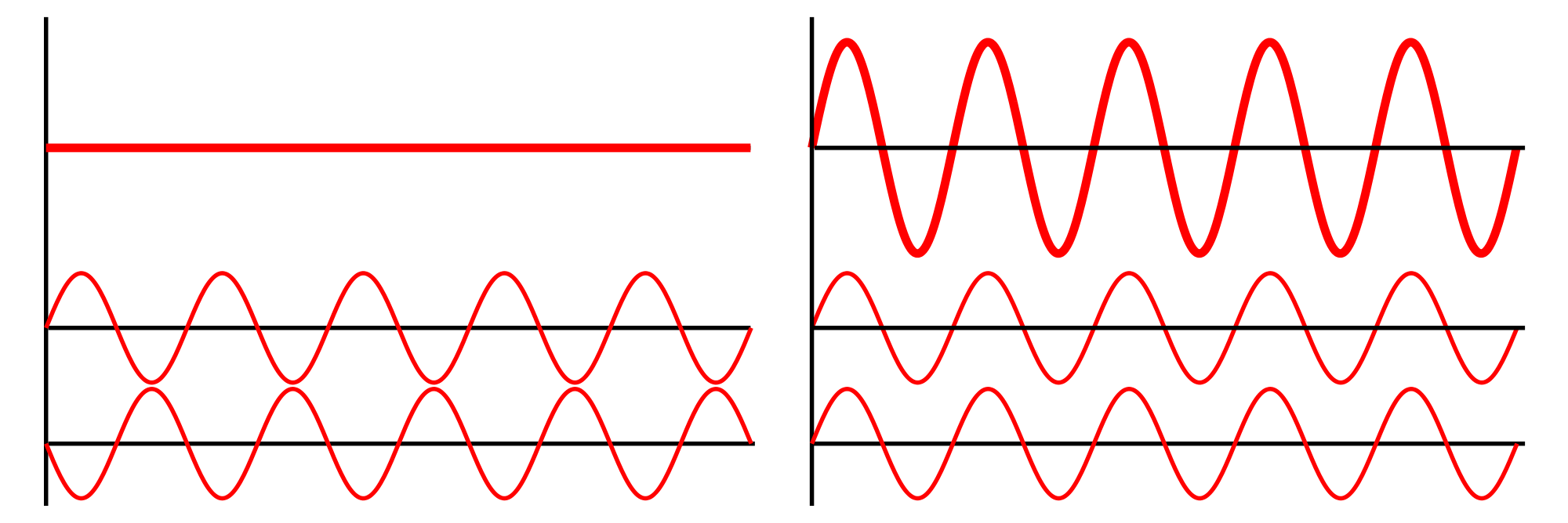 Interference of two waves